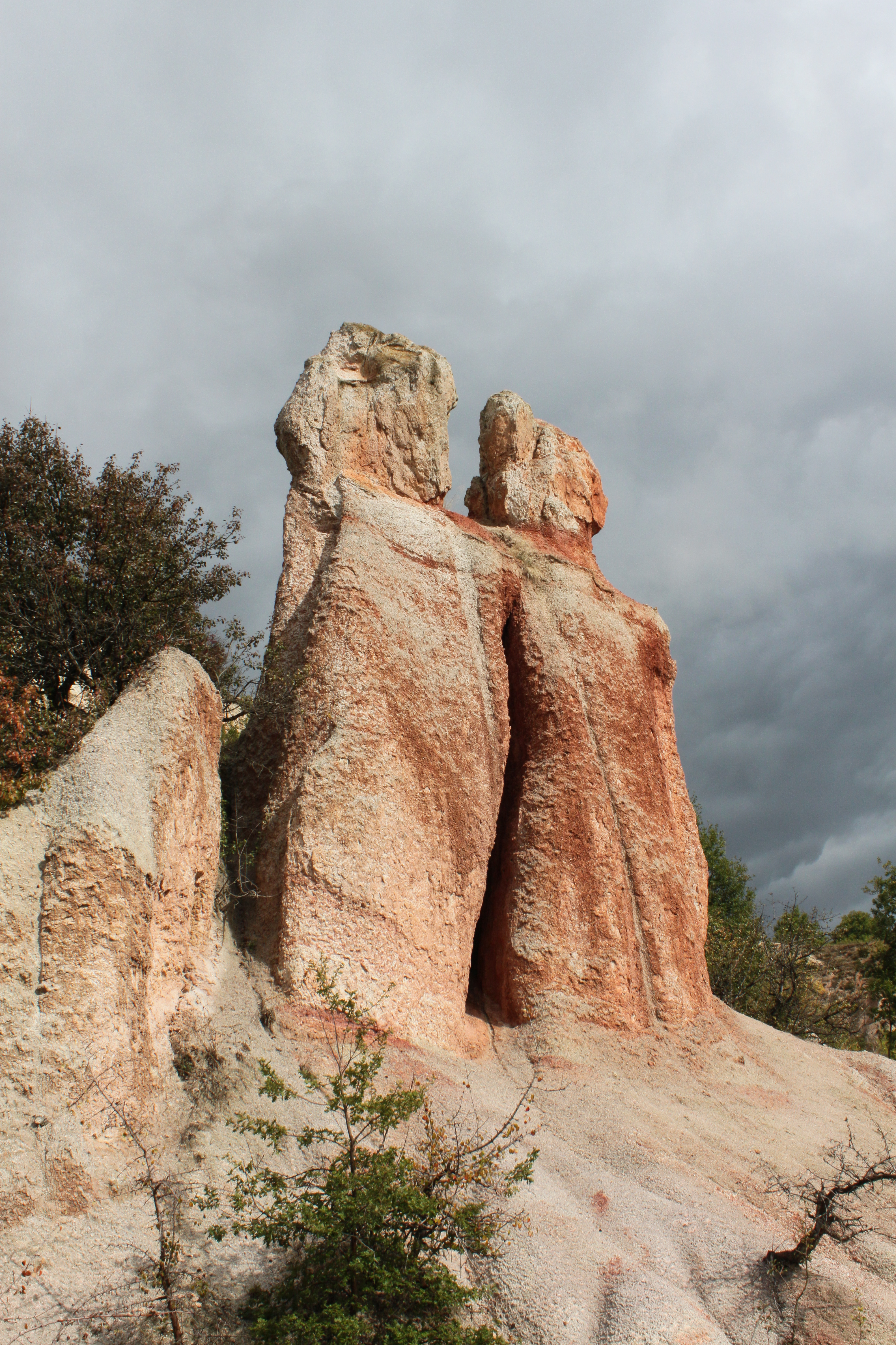 Kardzhali pyramids; Bulgaria